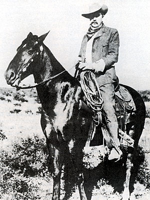 Arizona Rangers Captain Thomas H. Rynning on horseback (1902-1907)